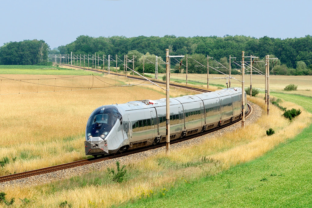 Train AGV on Railway test circuit Velim — Cerhenice in the Czech republic.